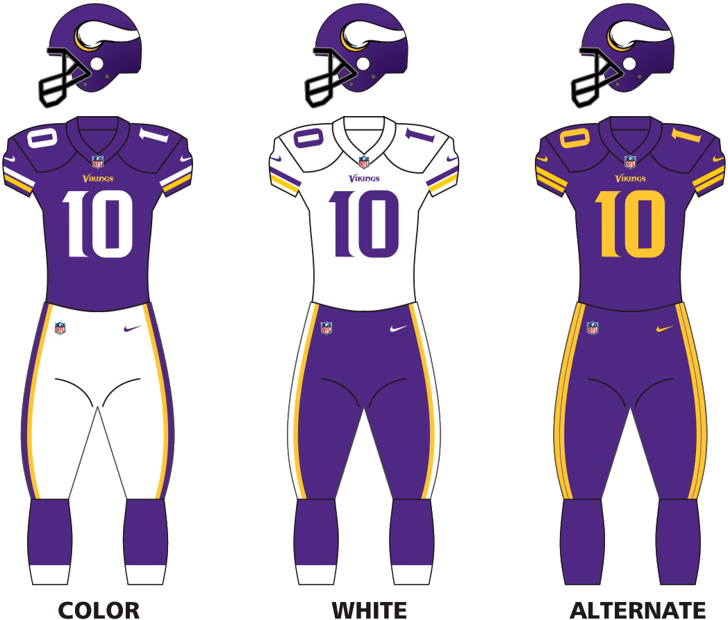 The uniforms of the Minnesota Vikings since the 2013 NFL season.